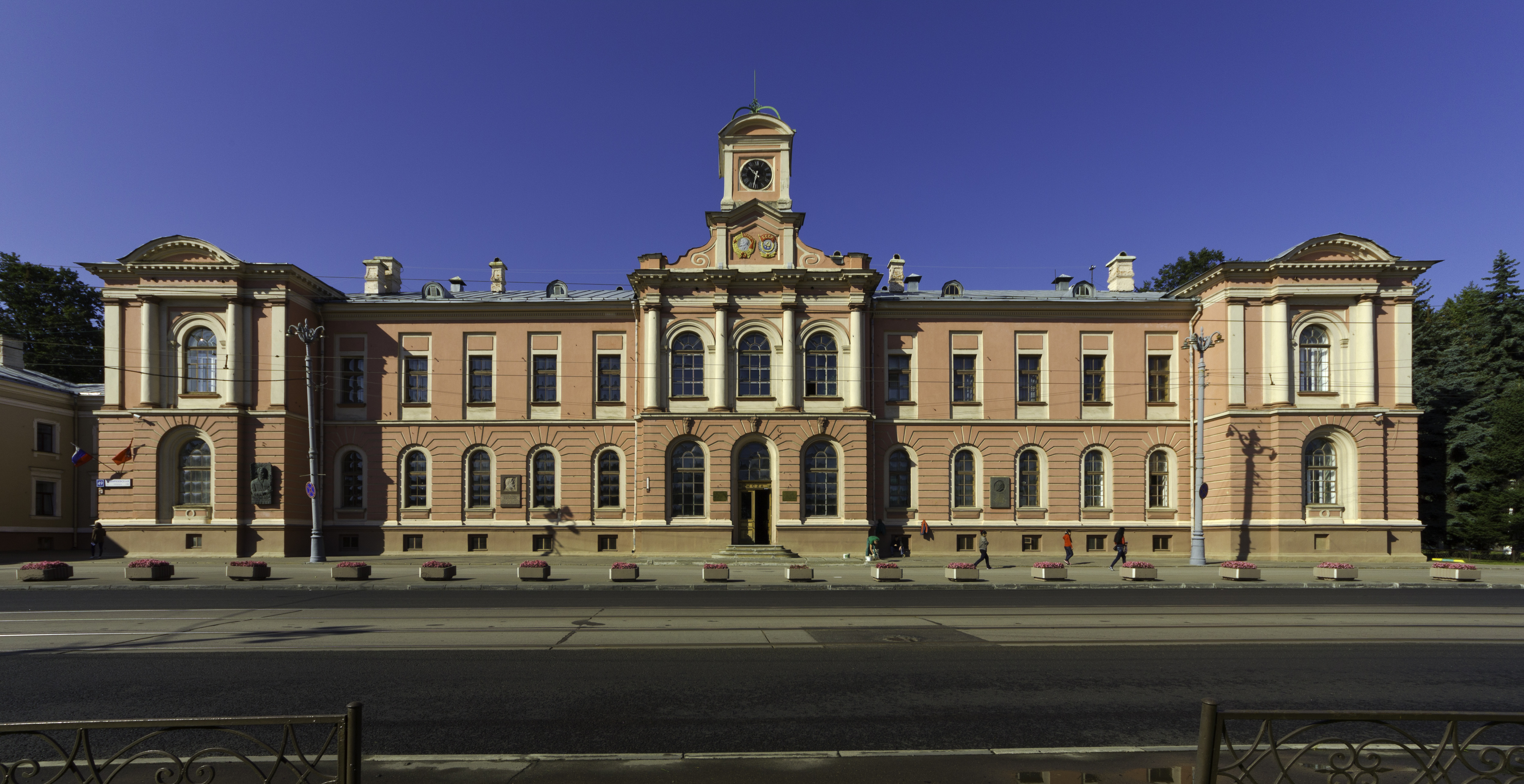 Moscow, Russia. Former Petrovsko-Razumovskoe Estate, today located at both sides of Timiryazevskaya Street, and used by the State Timiryazev Agricultural Academy.